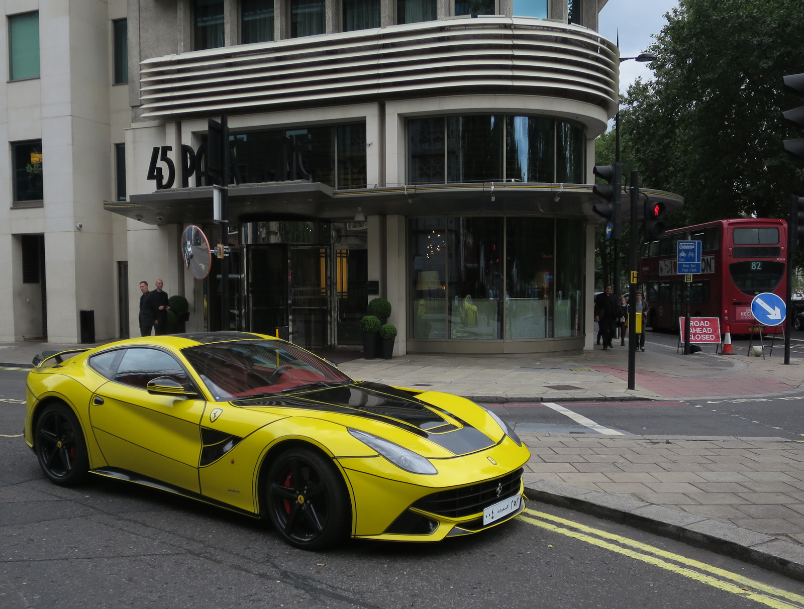 Ferrari F12 outside 45 Park Lane